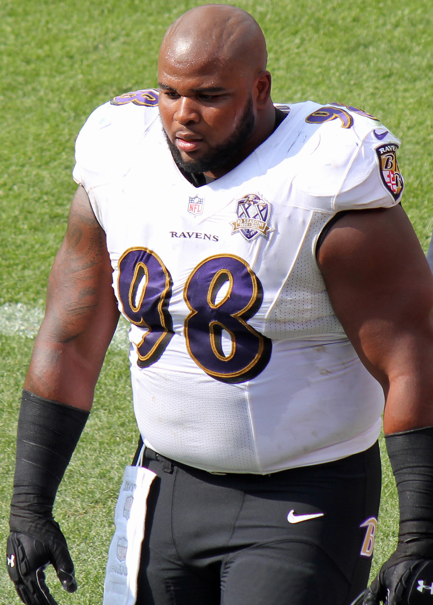 Brandon Williams, a player on the National Football League.